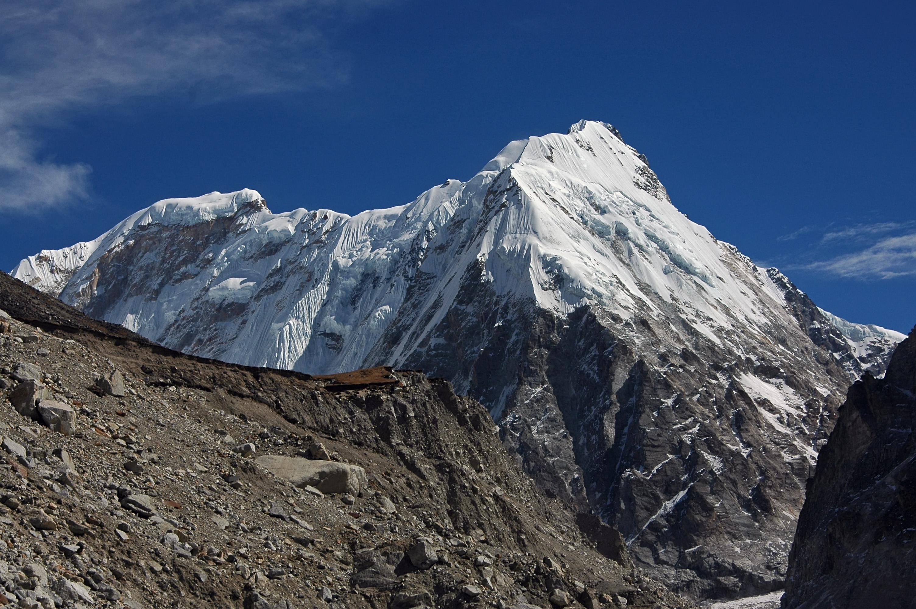 Nepal Peak 7177 m (front) and Tent Peak 7365 m